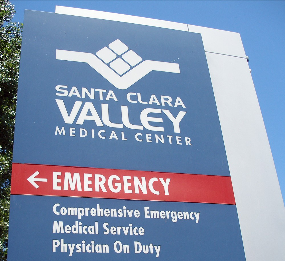 A roadside sign at Santa Clara Valley Medical Center in San Jose. This sign is an example of how the U.S. state of California requires all hospitals with emergency rooms to include text like "Comprehensive Emergency Medical Service" and "Physician On Duty."